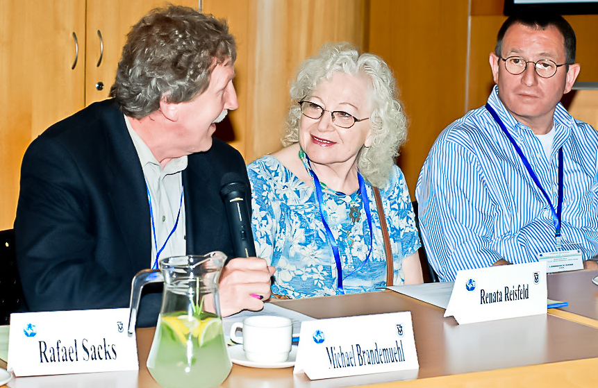 US-Israel Workshop on: Sustainable Buildings – Materials and Energy 12-13 July 2010, Technion, Haifa, ISRAEL